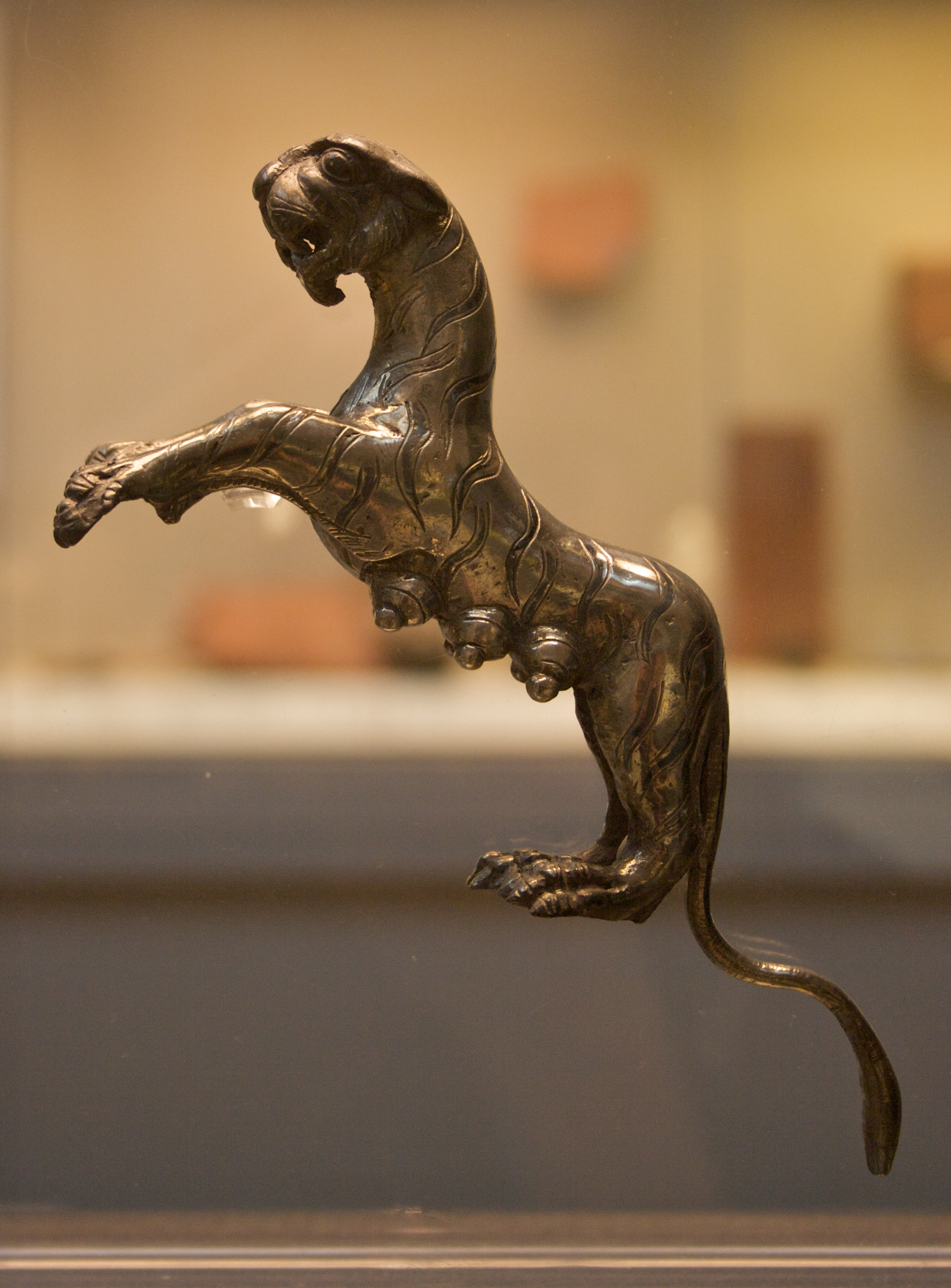 handle in form of a tigress from the Hoxne hoard. see above